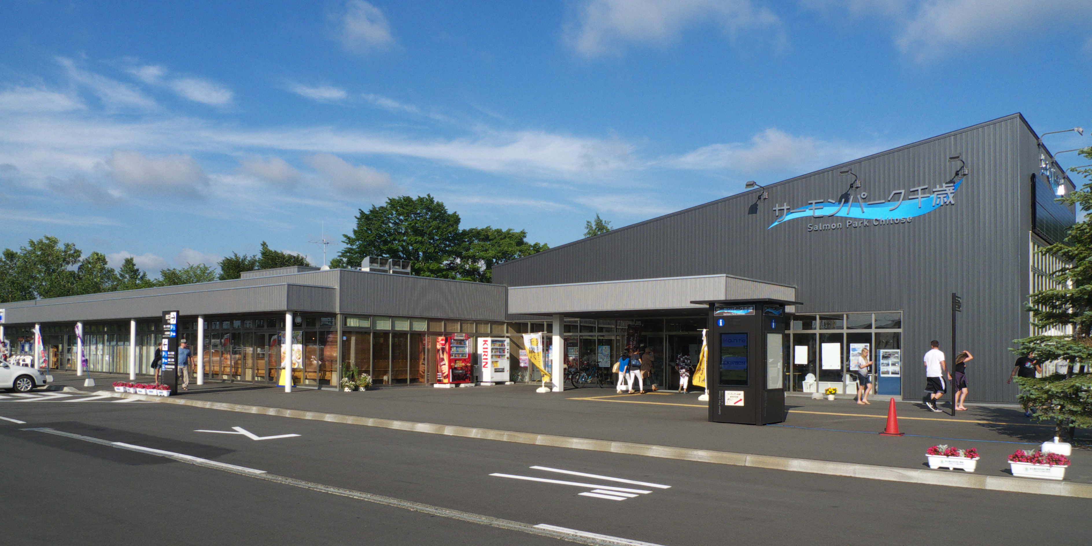 Michinoeki Salmon Park Chitose in Chitose City, Hokkaido, Japan